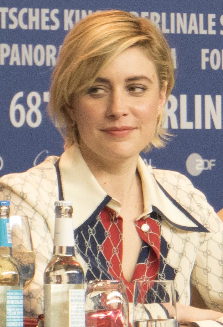 Greta Gerwig and Bryan Cranston at the press conference of Isle of Dogs at Berlinale 2018